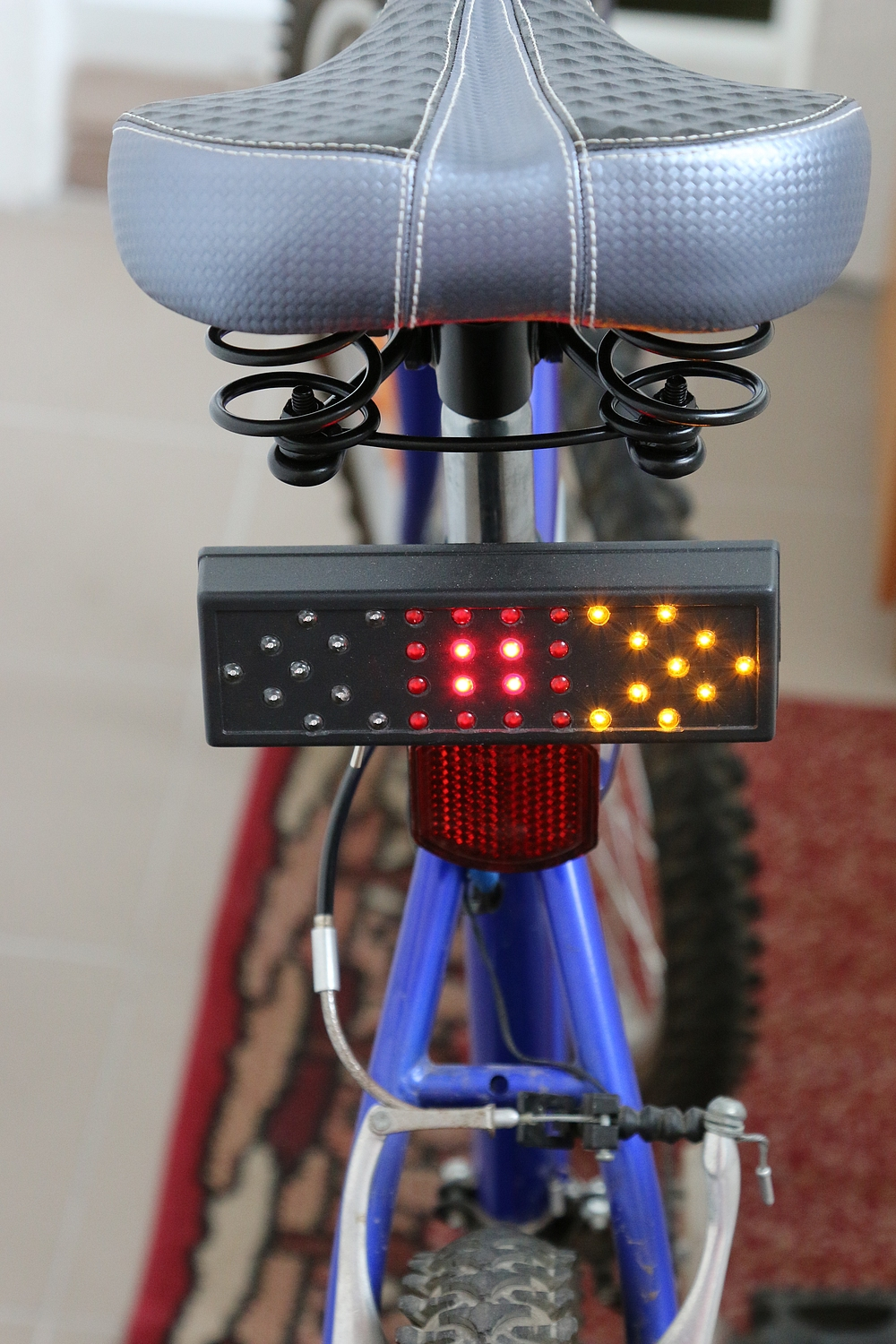 D.I.Y. LED rear bicycle lantern with direction indicators and stop light